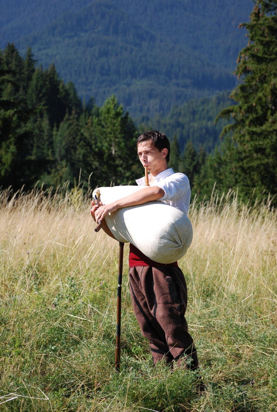 Bulgarian Kaba Gaida Player